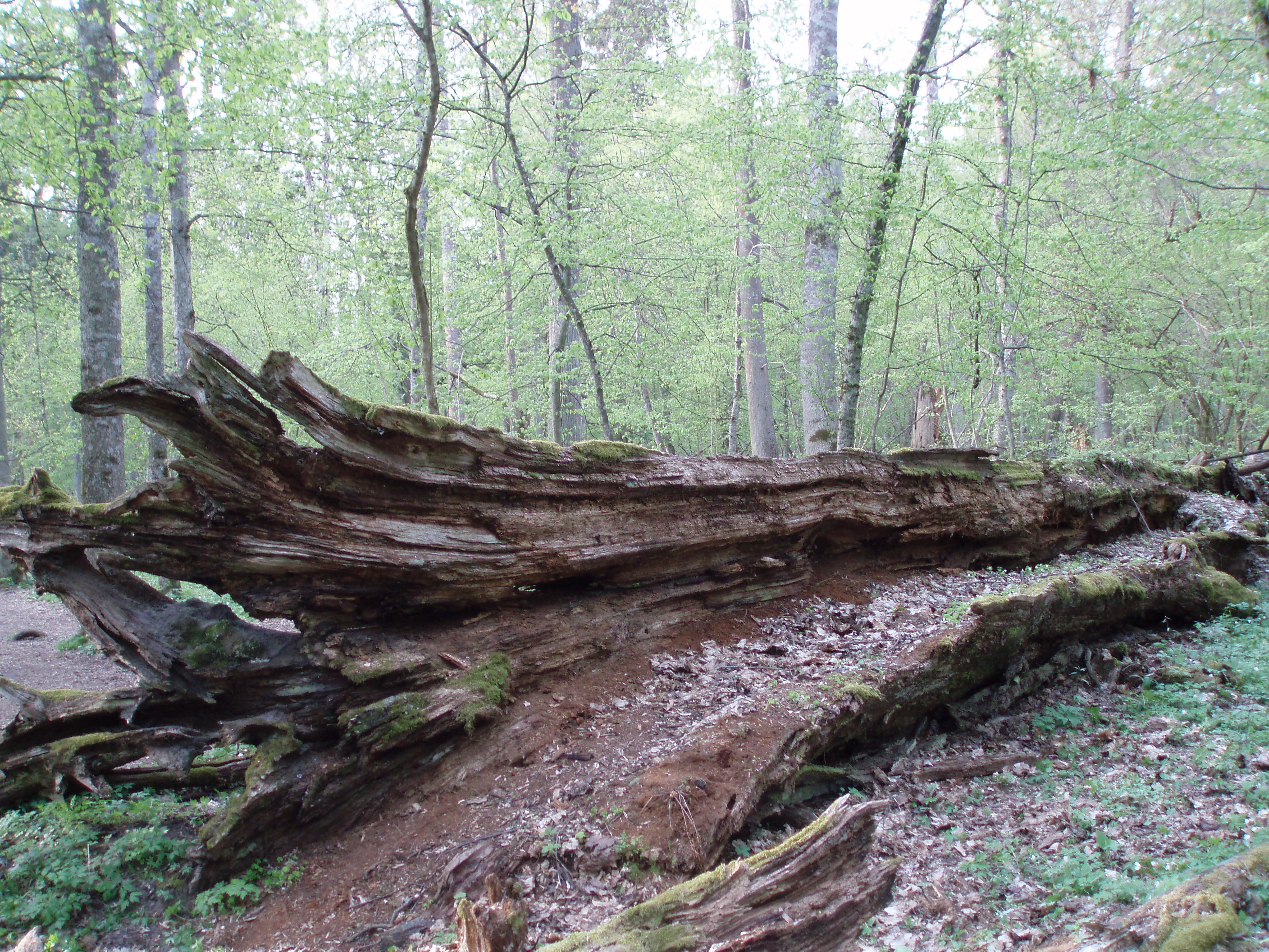 Oak of Polish king Władysław Jagiełło in nature reserve in Białowieża Forest